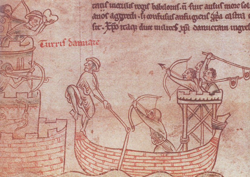 This image comes from the 13th-century record of the English chronicler Matthew Paris on the Fifth Crusade. The manuscript is located in Corpus Christi College, Cambridge.